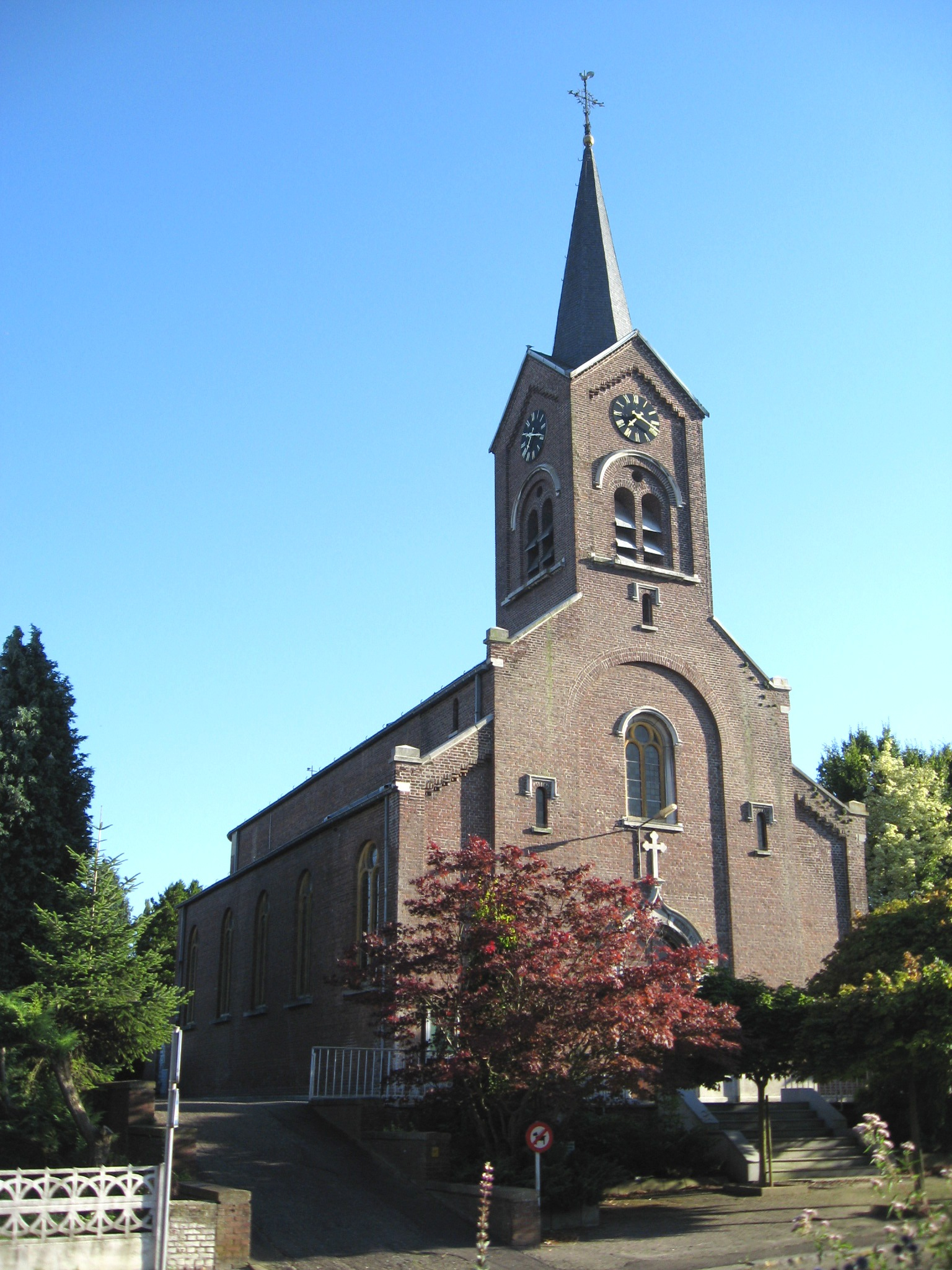 Church of Saint Lambert in Hoeselt (Alt-Hoeselt), Limburg, Belgium